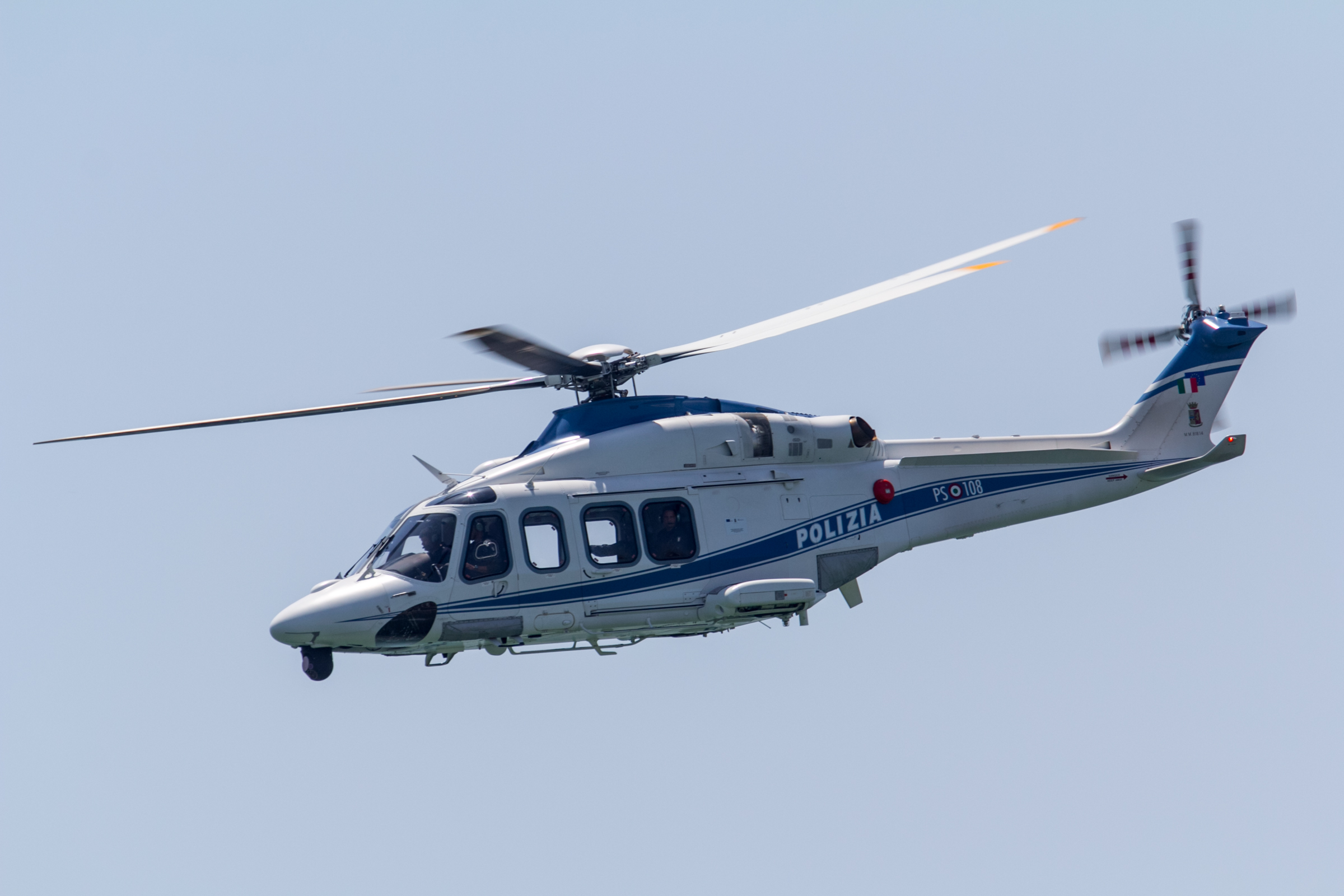 Police AgustaWestland AW139 at the 2014 Rome International Air Show